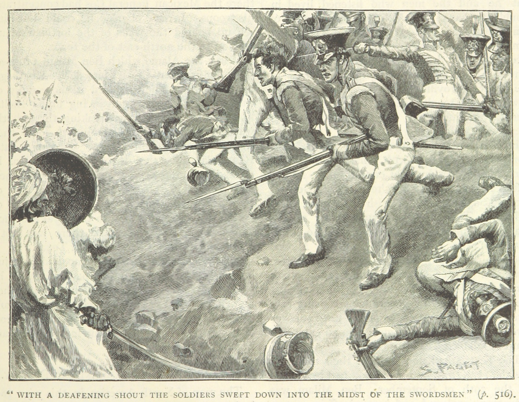 English troops charge the Balochi lines at the 1843 Battle of Hyderabad.